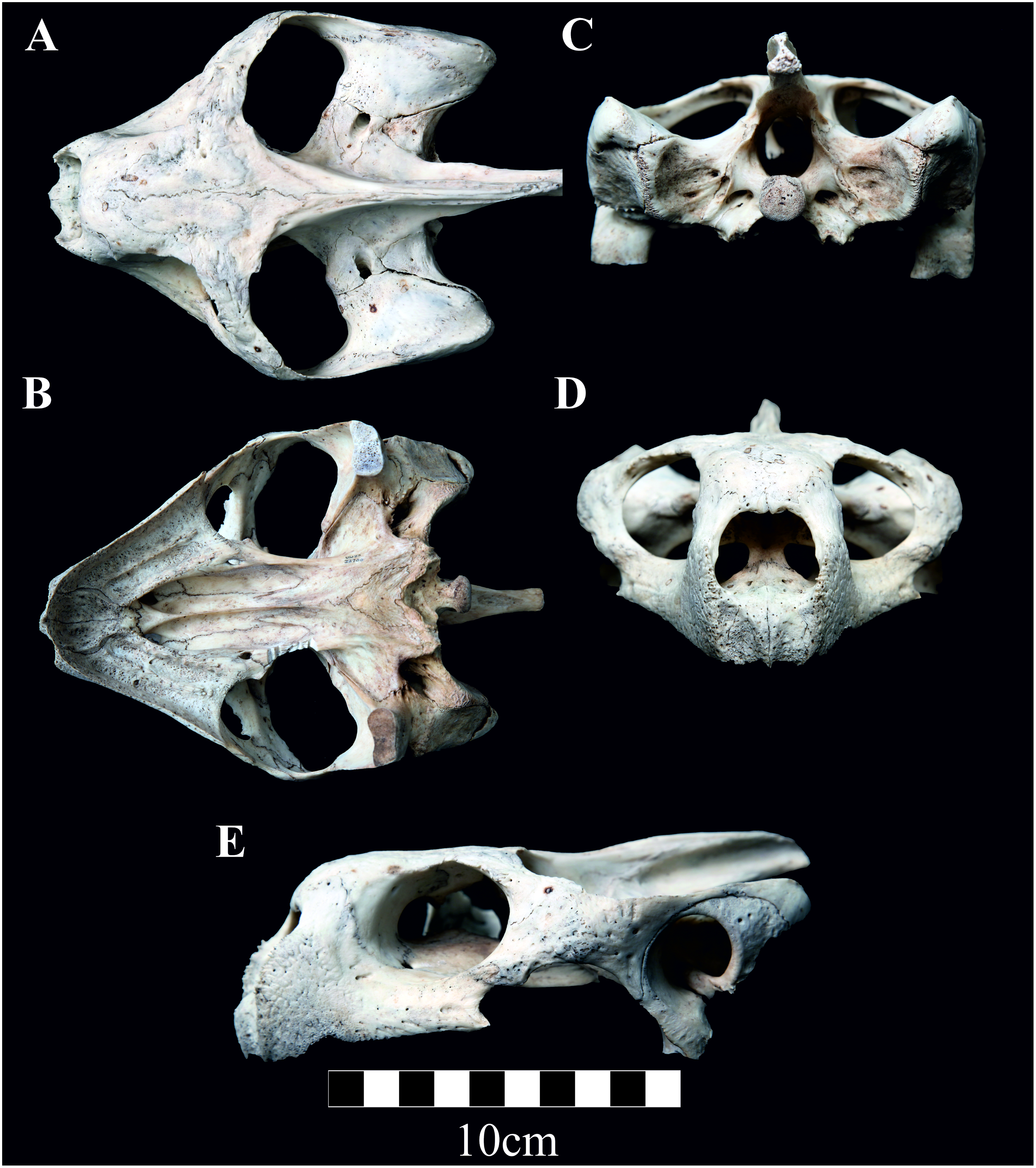 The skull of the museum specimen UWZS 32700, holotype for Chelonoidis donfausti from Cerro Fatal in Santa Cruz (A: dorsal, B: ventral, C: occipital, D: frontal and E: lateral view).